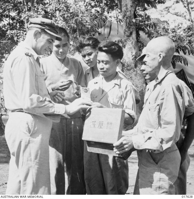 Unidentified members of the guerilla force Oaktree being interviewed by an unidentified Netherlands, KNIL officer (left) as money is passed around from a wooden box with Japanese characters on the top. Over a two year period, this guerilla force raided and ambushed Japanese positions, pillaged supplies and destroyed ammunition dumps. They also killed 30 Japanese soldiers.